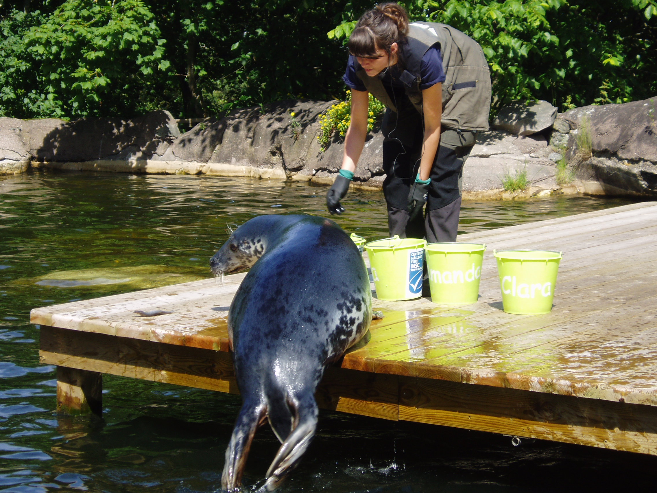 Feeding of a captive grey seal at Skansen Aquarium in Sweden.